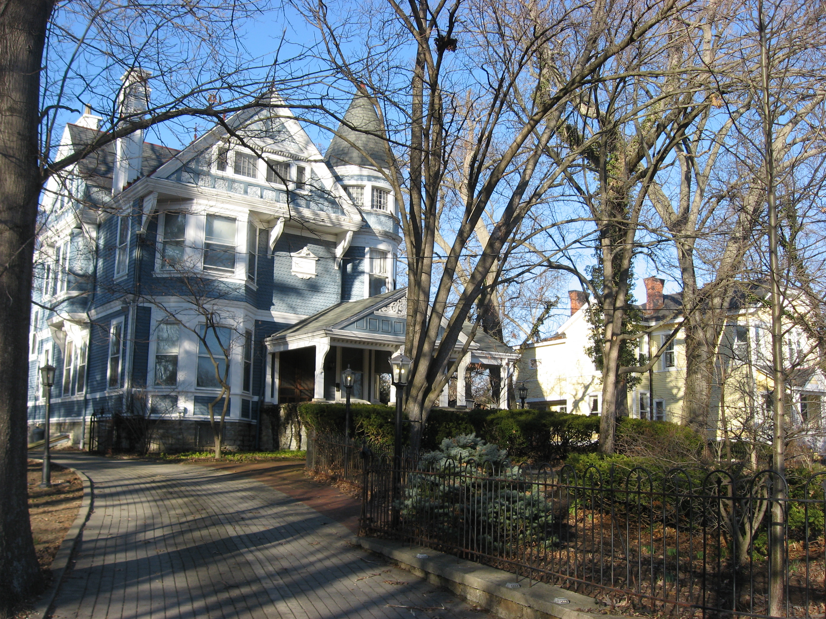 Houses on the northern side of the eastern end of the 200 block of E. Wyoming Avenue in Wyoming, Ohio, United States. This block of Wyoming Avenue is part of the Village Historic District, a historic district that is listed on the National Register of Historic Places.